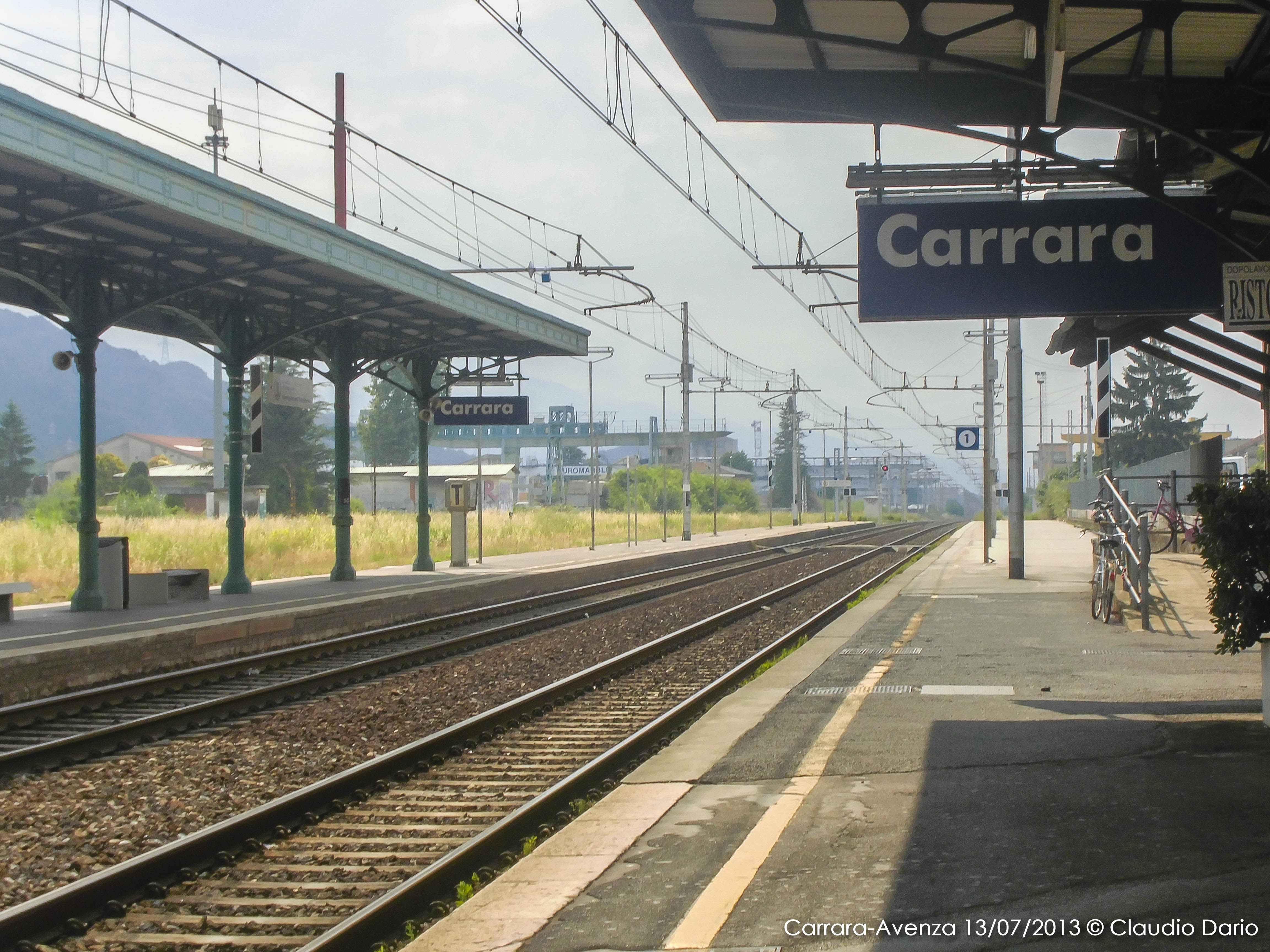 View of the platforms and of the two shelters.